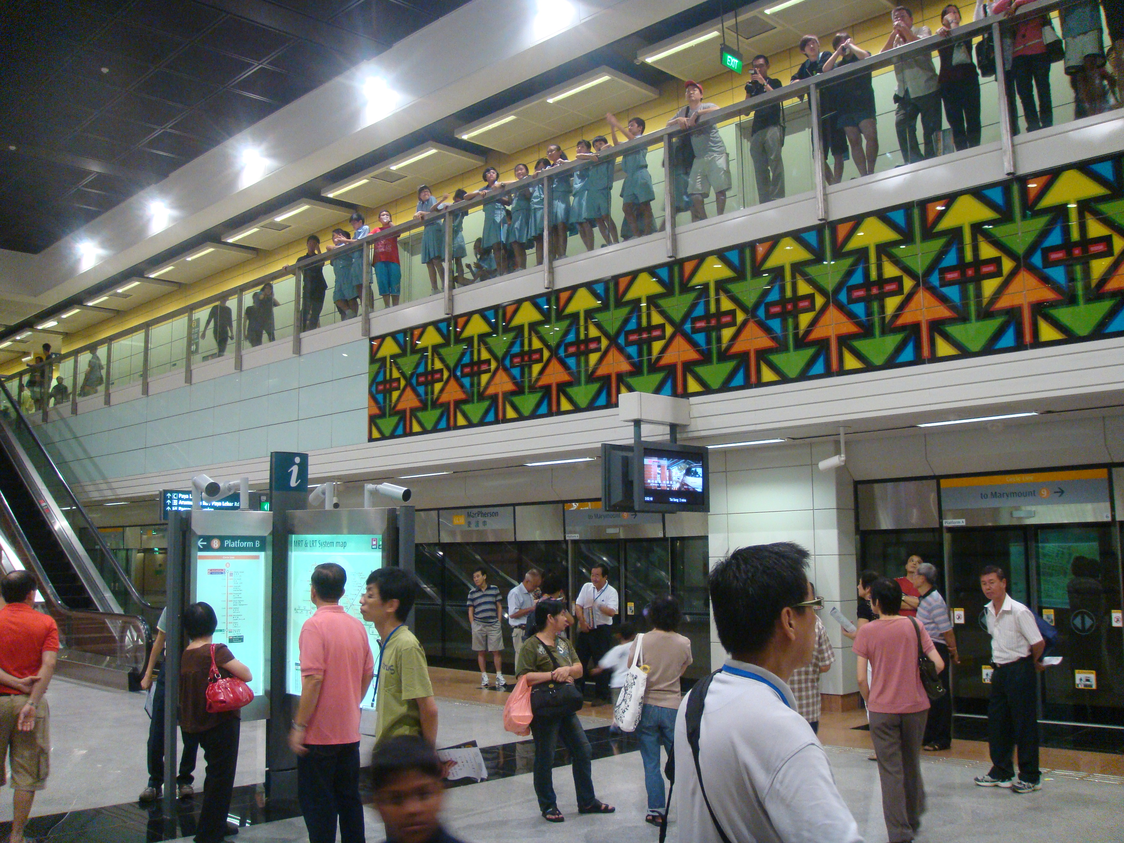 Circle Line platform of MacPherson MRT Station, taken on the LTA Circle Line Discovery II Open House.